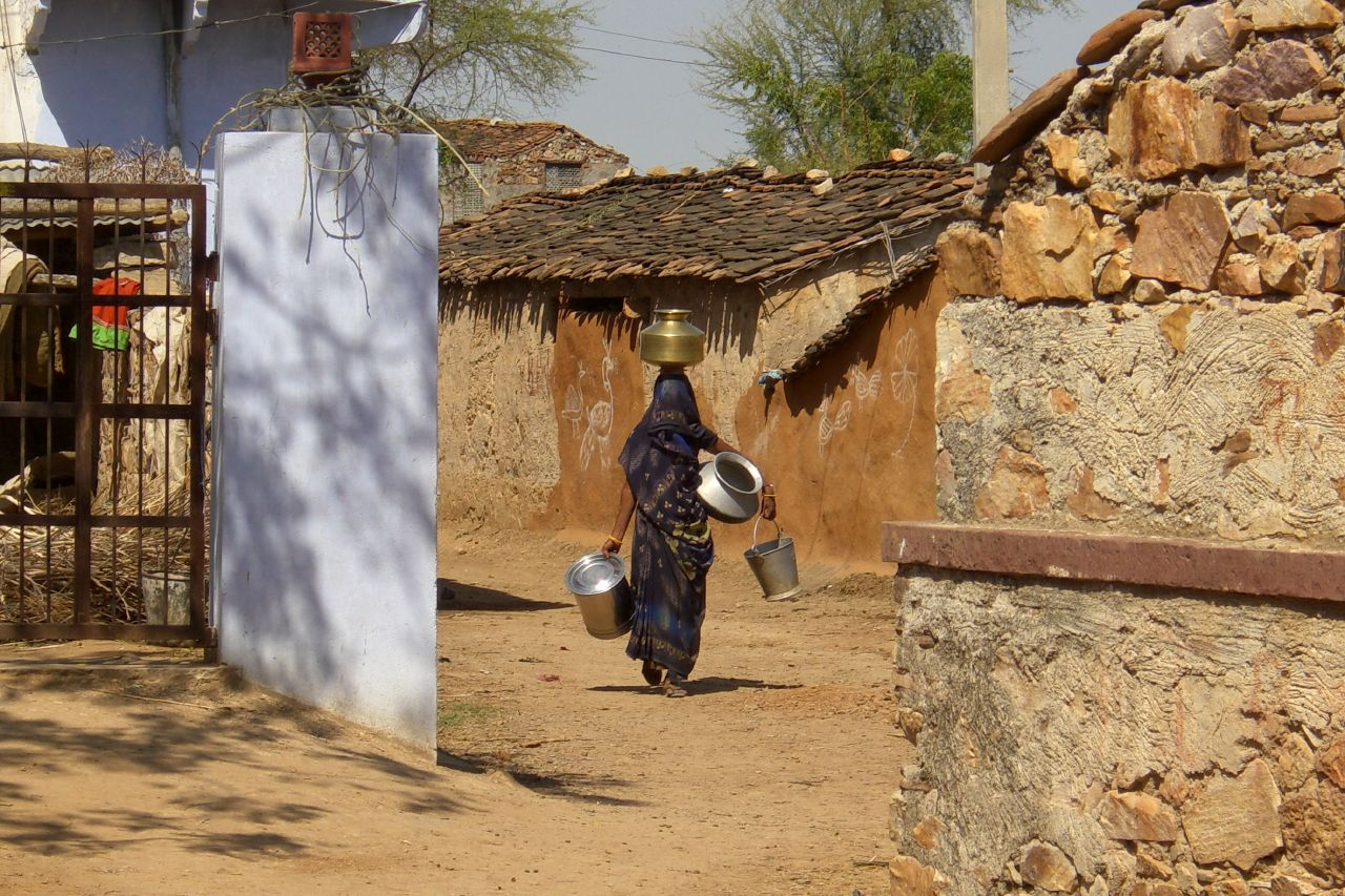 This photo was taken in a small Rajasthani village near Sawai Modhpur, where women are responsible for child-rearing, housekeeping and the bulk of farming duties. They are also required to work fully veiled in public, as this woman is as she walks toward a well.